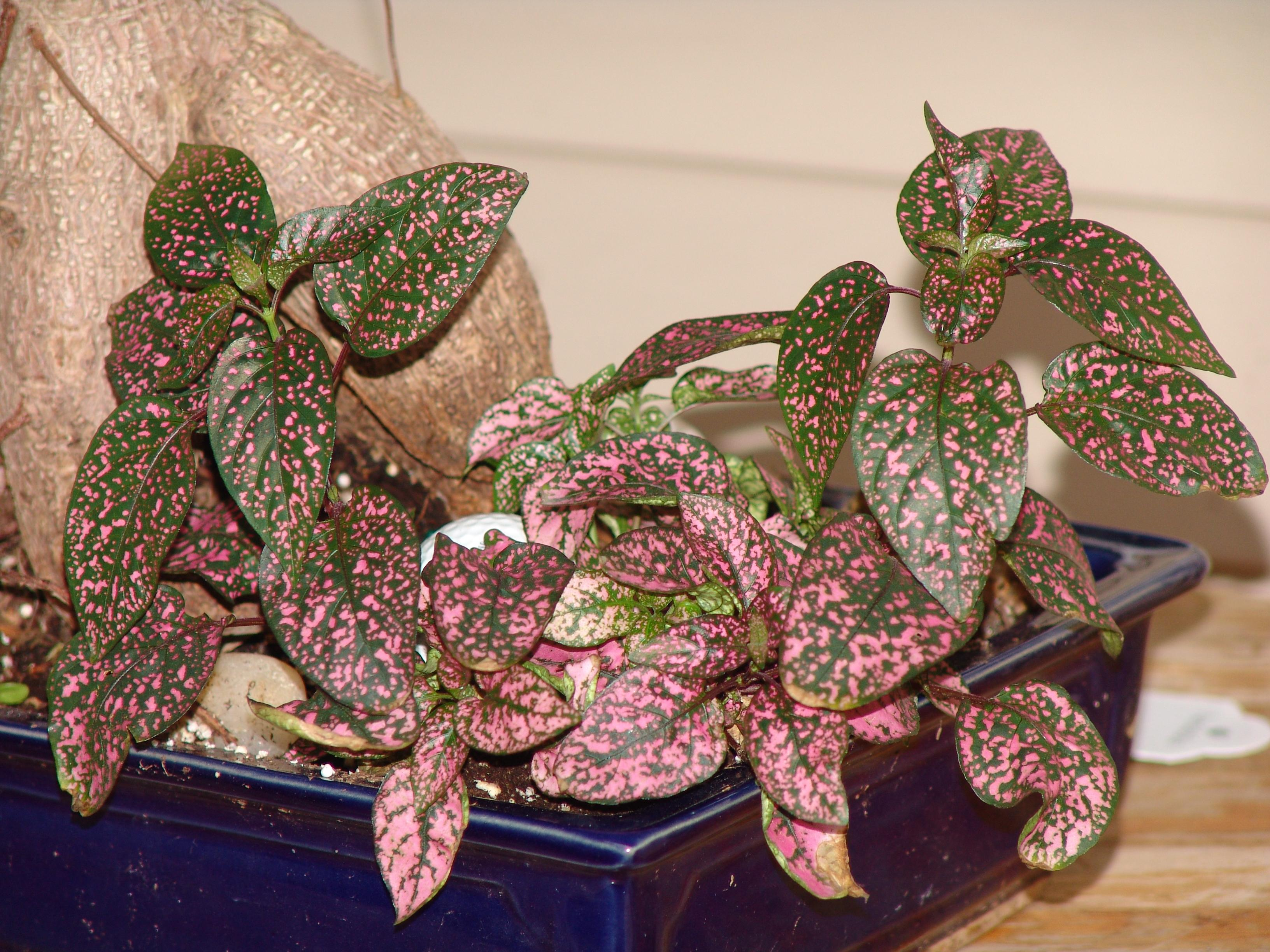 Hypoestes Phyllostachya. Photo taken by IP Singh.